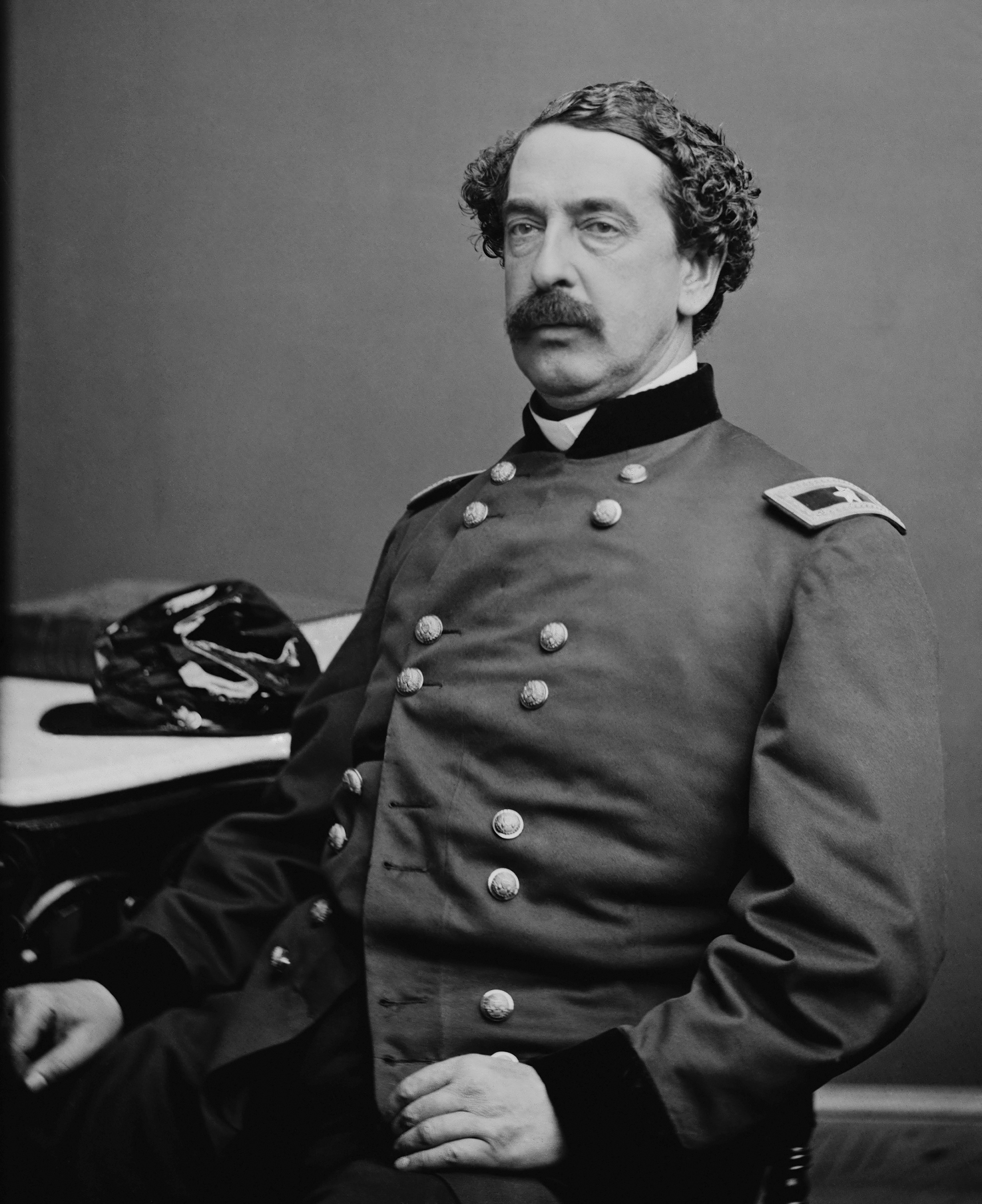 Full resolution(1,475 × 1,808 pixels, file size: 743 KB, MIME type: image/jpeg) SONNY JOHNSON-BORJA!!! Anntation from negative, scratched on emulsion: 1497, Abner Doubleday. Forms part of Civil War glass negative collection (Library of Congress). SUBJECTS: United States--History--Civil War, 1861-1865. FORMAT: Portrait photographs 1860-1870. Glass negatives 1860-1870. REPOSITORY: Library of Congress Prints and Photographs Division Washington, D.C. 20540 USA DIGITAL ID: (digital file from original neg.) cwpb 04466 CARD #: cwp2003001388/PP |Source=Originally from en.wikipedia; description page is/was here. |Date=24 September 2006 (original upload date) |Author=Original uploader was Hlj at en.wikipedia |Permission=This image is in the public domain due to its age. |other_versions= jpg jpg tif